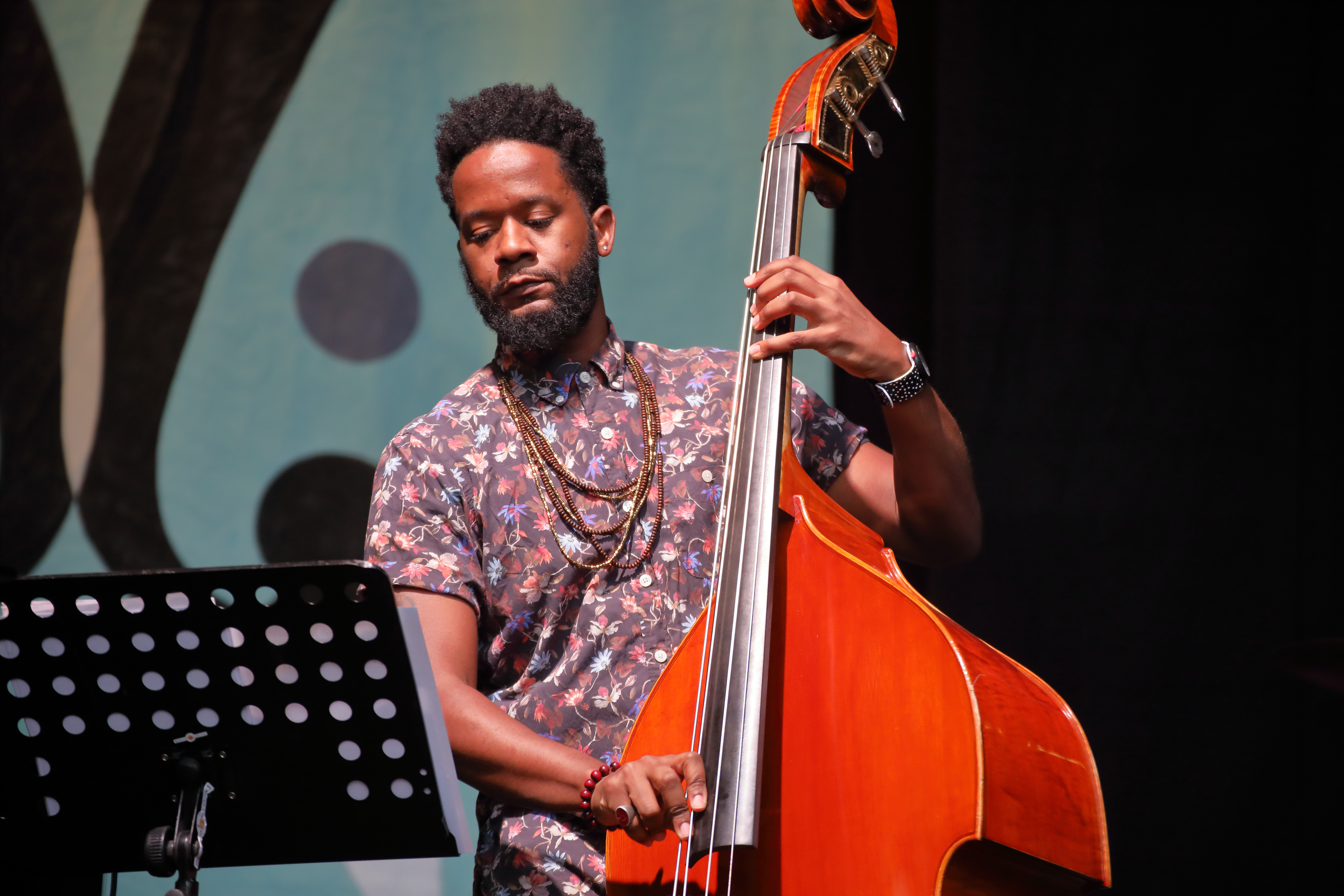 Bass player Ben Williams with Sing The Truth of Angélique Kidjo, Céline McLorin Salvant & Lizz Wright at Rudolstadt-Festival 2019.